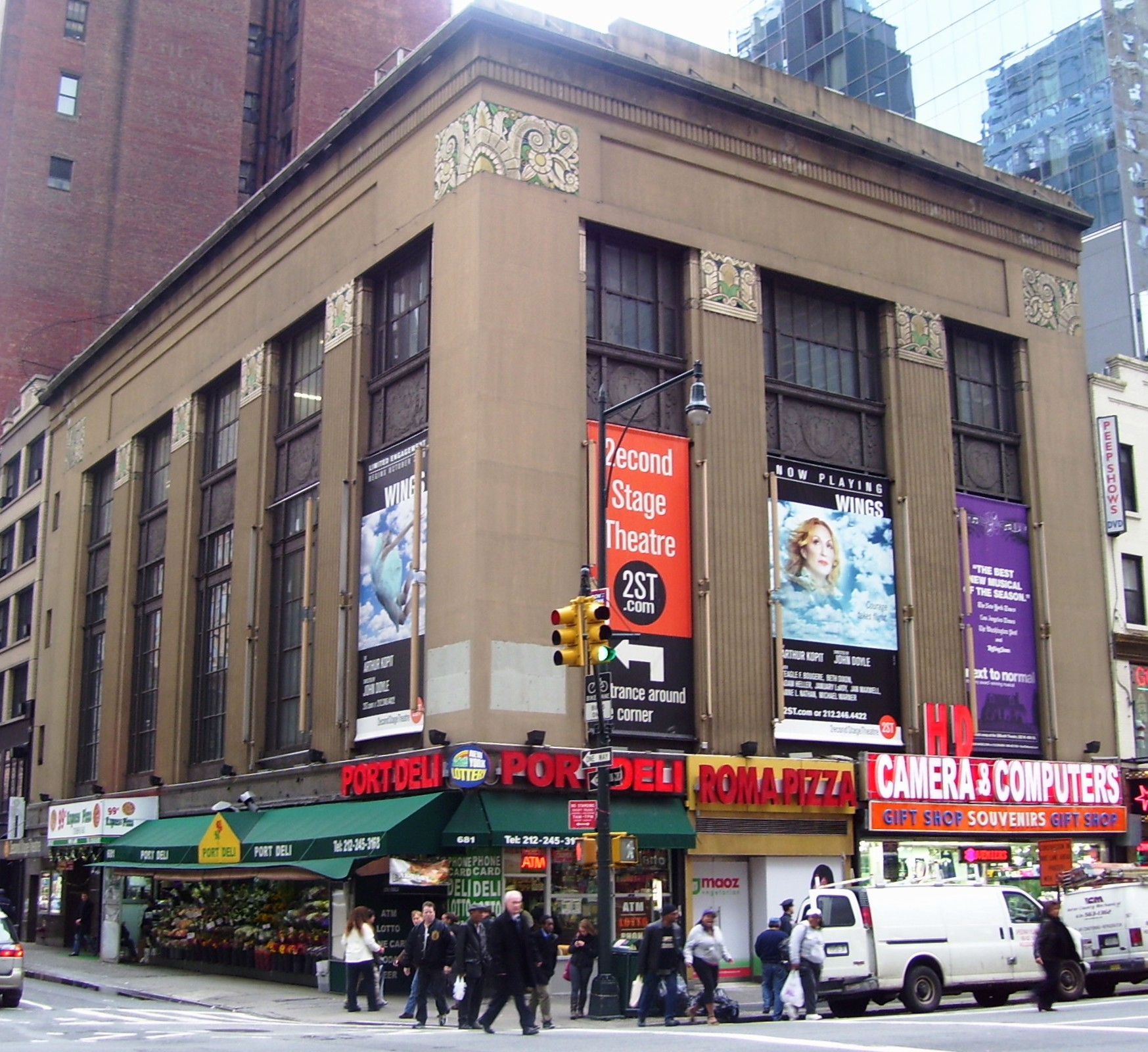 The Second Stage Theatre building, at 681 Eighth Avenue on the corner of West 43rd Street in the Theatre District of midtown Manhattan, was originally built as for the Manufacturers Hanover Bank in 1927. It was converted into a theatre in 1999 by Rem Koolhaas and Richard Gluckman.